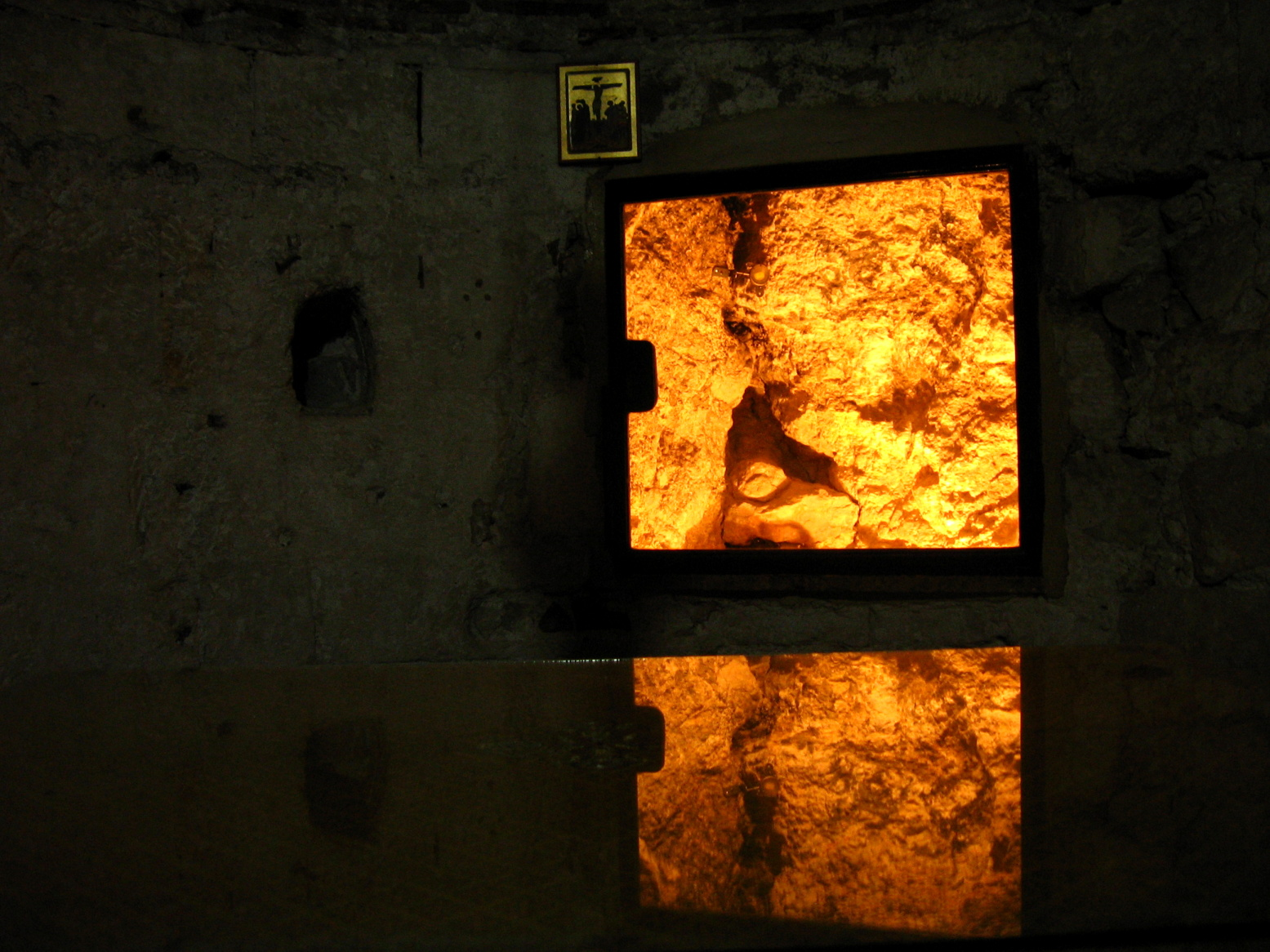 The crack in the stone of Calvary (Golgotha), as seen from the Chapel of Adam, Church of the Holy Sepulchre, Jerusalem.